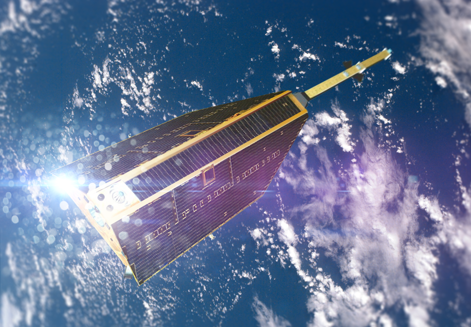 My own impression of CHAMP satellite (mainly based on an early concept from Astrium)